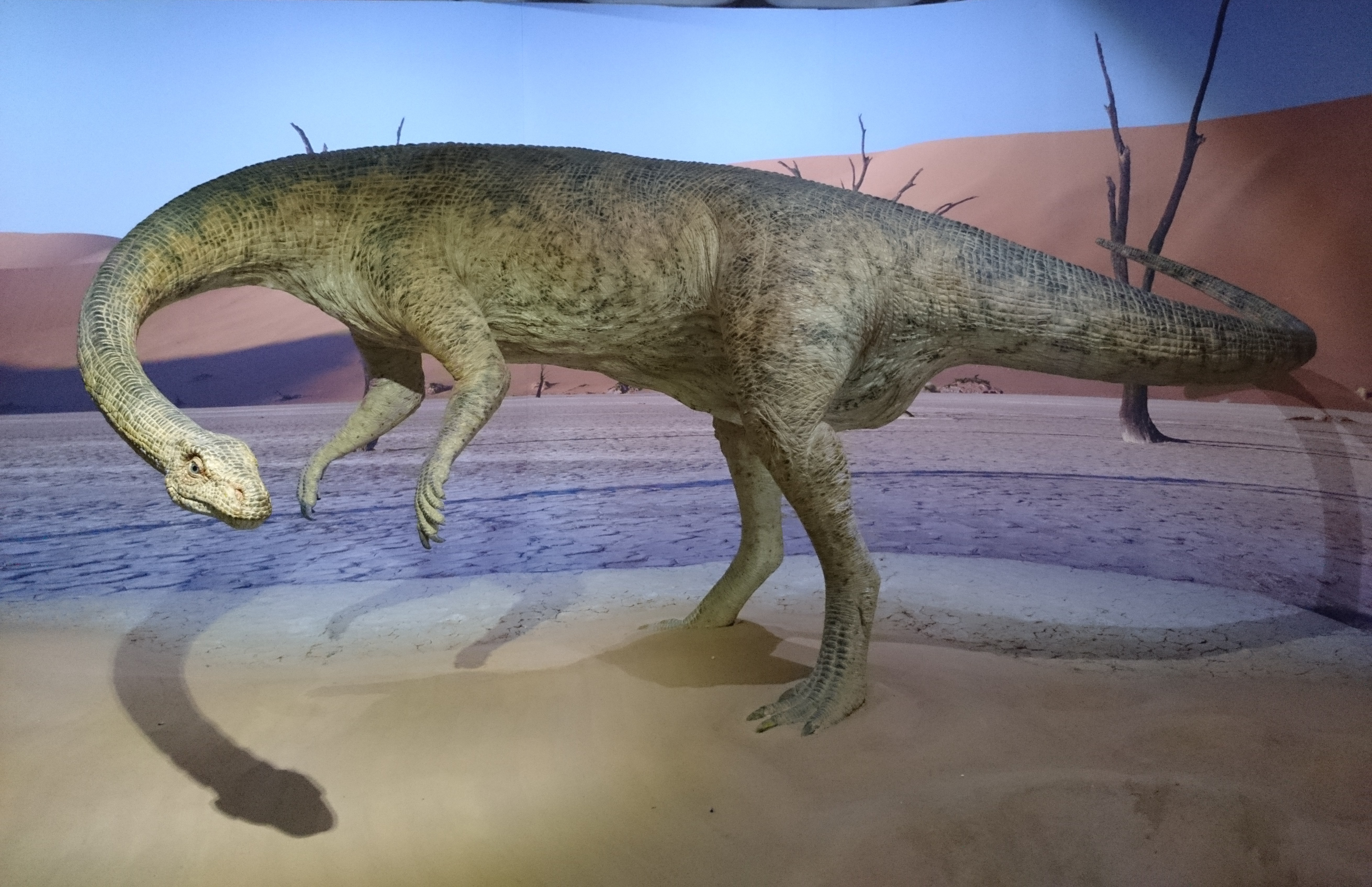 A dinosaur model